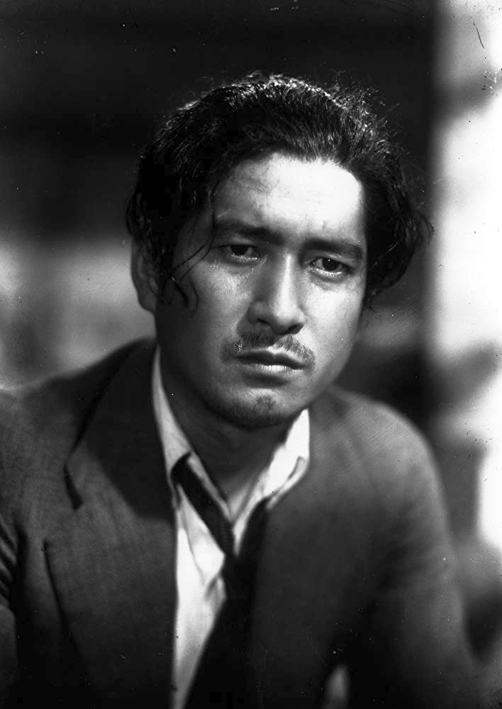 Shūji Sano in Kaze no naka no mendori (風の中の牝どり) directed by Yasujirō Ozu - 1948